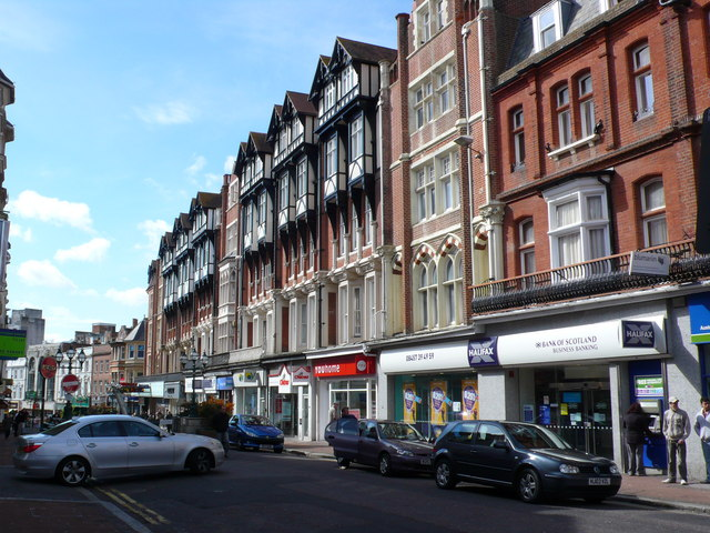 Shops and Apartments, Bournemouth Town Centre, 101, Old Christchurch Road. The architecture of the buildings above street level is frequently more attractive and interesting than the shops below